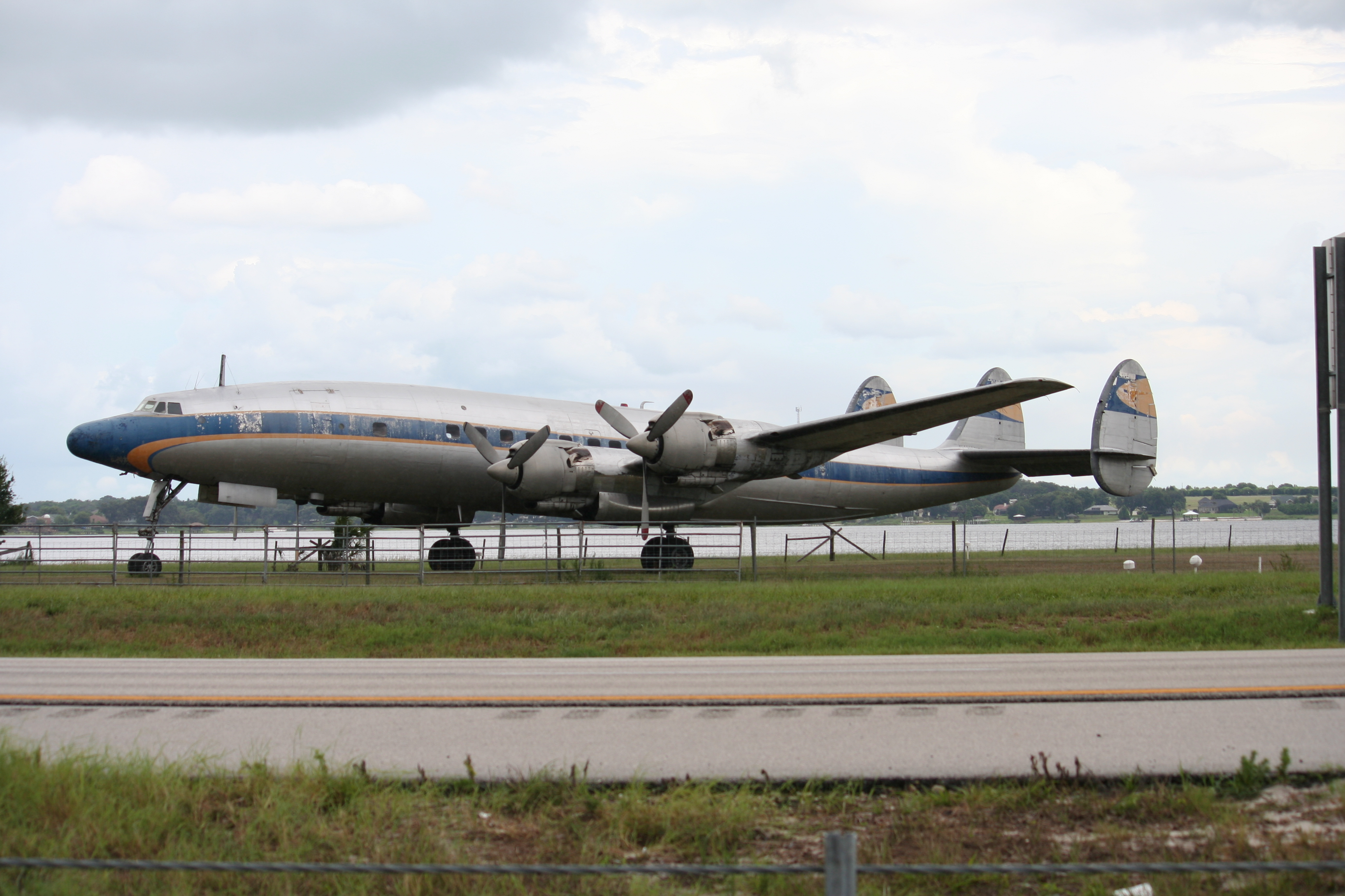 Constellation next to I-4 in Florida.